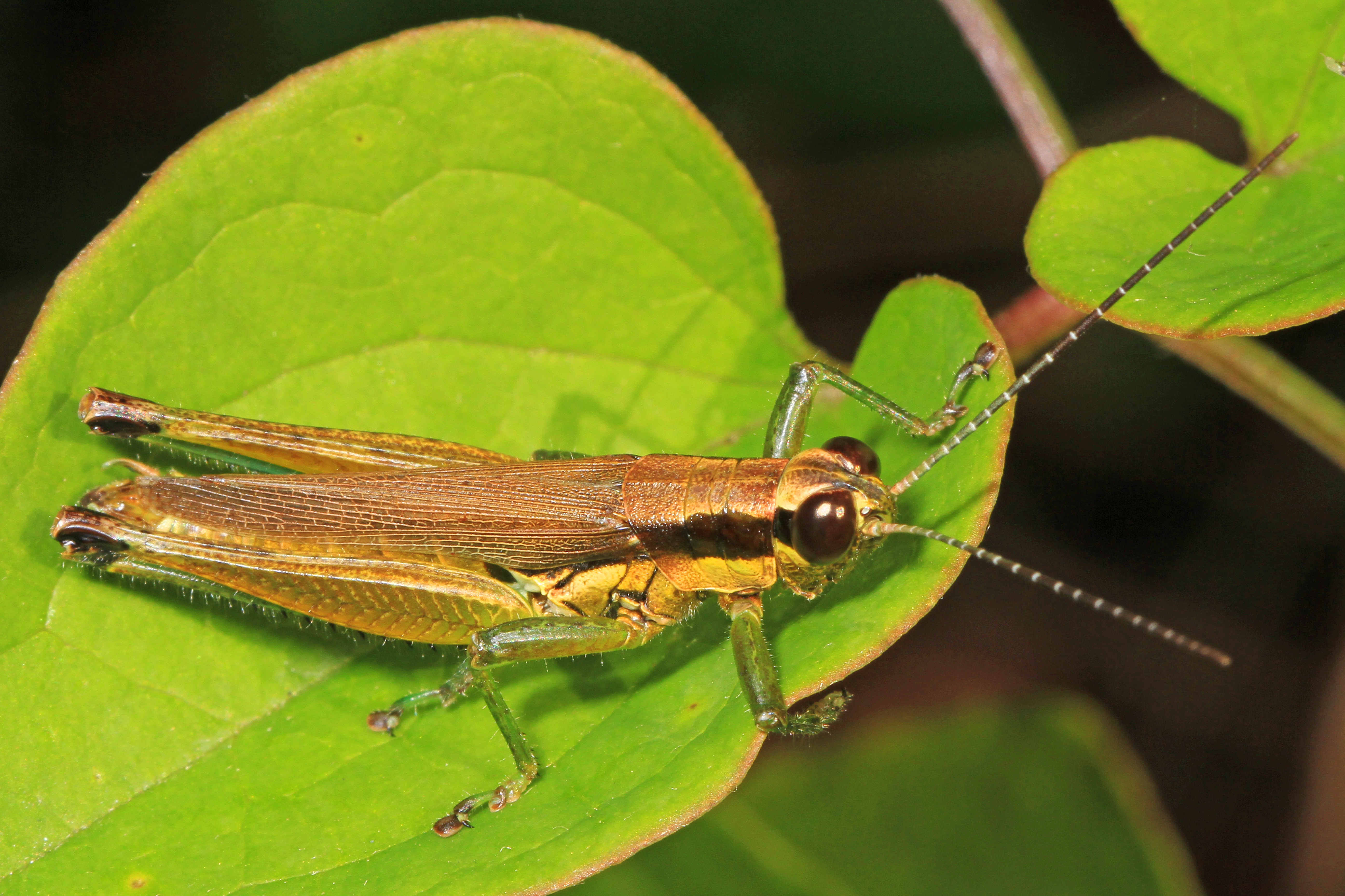 Olive-green Swamp Grasshopper - Paroxya clavuliger, Occoquan Bay National Wildlife Refuge, Woodbridge, Virginia